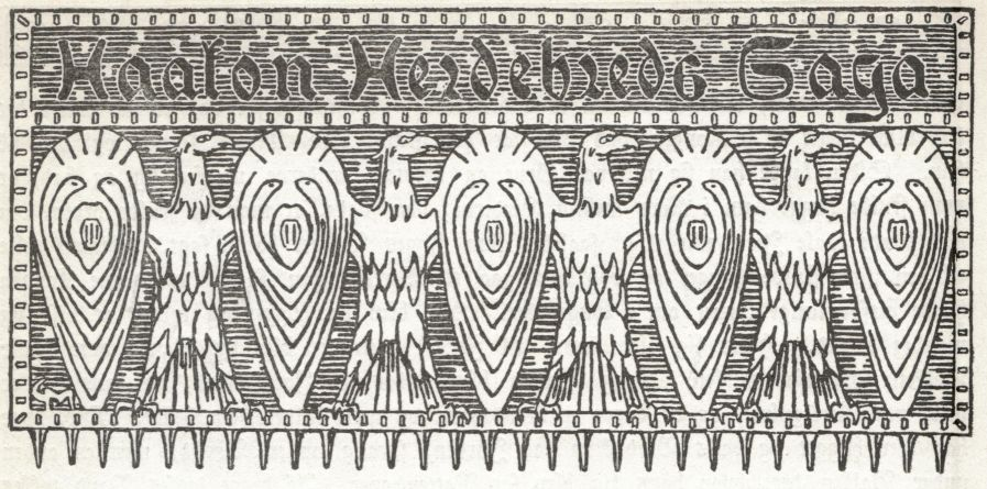 Gerhard Munthe: Illustration for Håkon Herdebreis saga, Heimskringla 1899-edition. Tittelfrise.